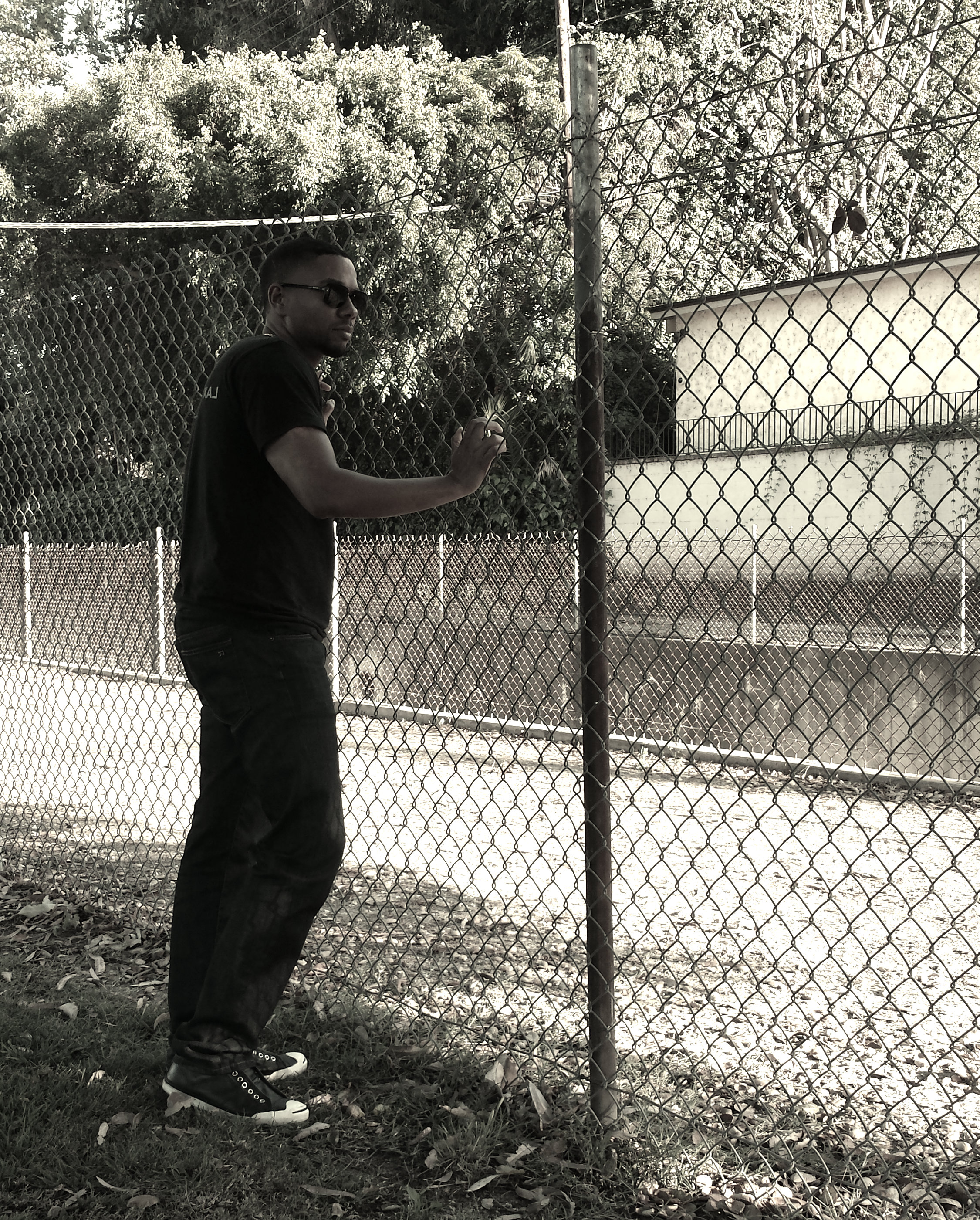 Jeff Jericho park shoot